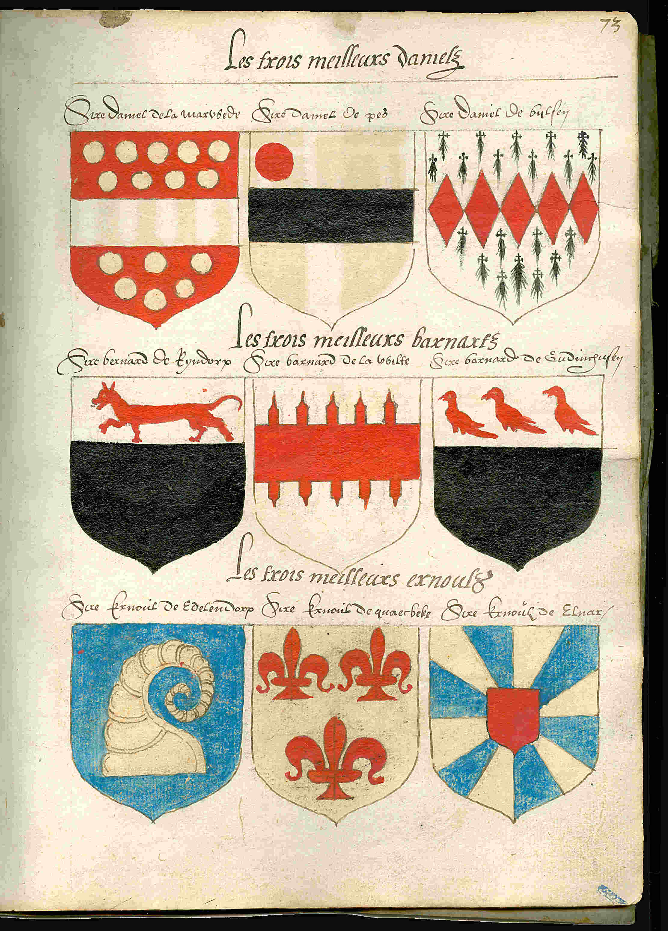 Page 73 from a copy of the Beyeren armorial / Wapenboek Beyeren from ca. 1600. The original Beyeren armorial from 1405 can be viewed at the website of the KB